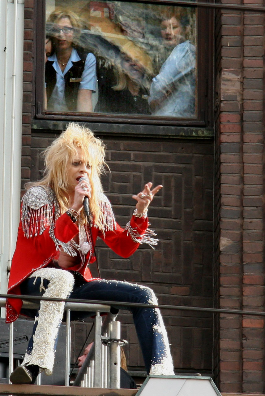 Michael Monroe of Hanoi Rocks performing at the STOCKMANN building , Helsinki, April 15, 2005